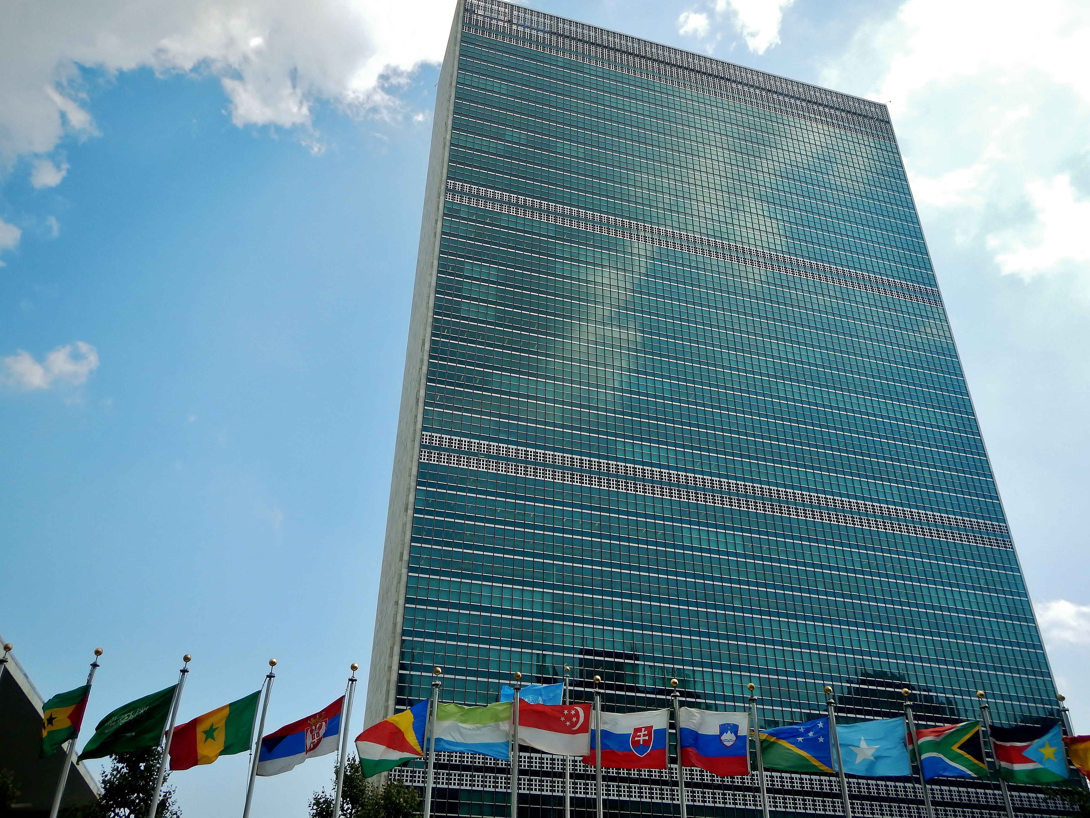 United Nations Headquarter